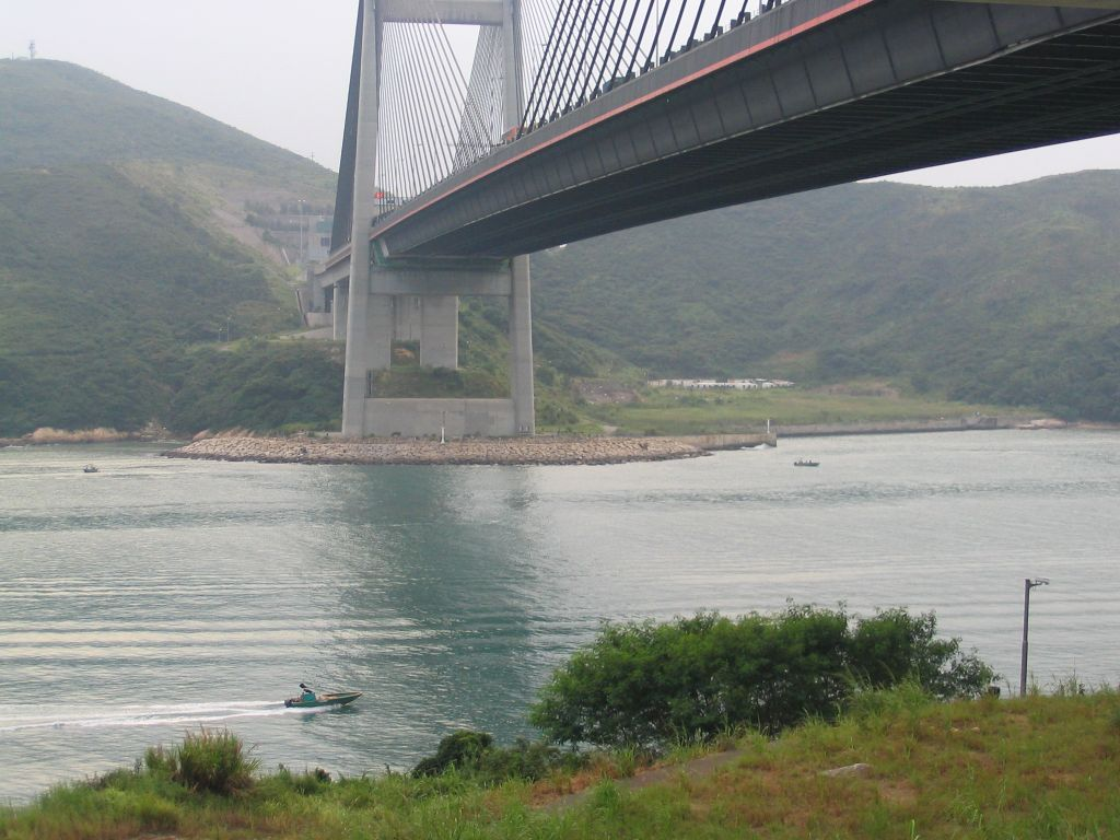 從馬灣眺望汲水門大橋 Kap Shui Mun view from Man Wan